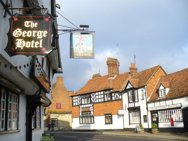 High Street, Dorchester Attractive village ensemble with the George Hotel (1495) and half-timbered cottages and Post Office.